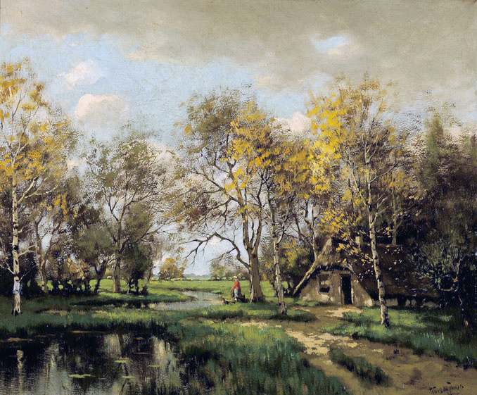 Boerderij tussen bomen en een landweg langs een beek